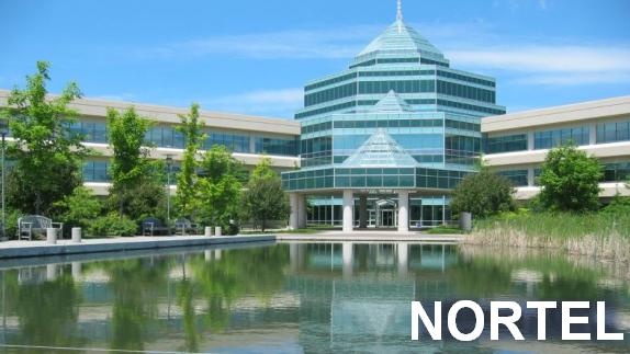 Nortel Ottawa